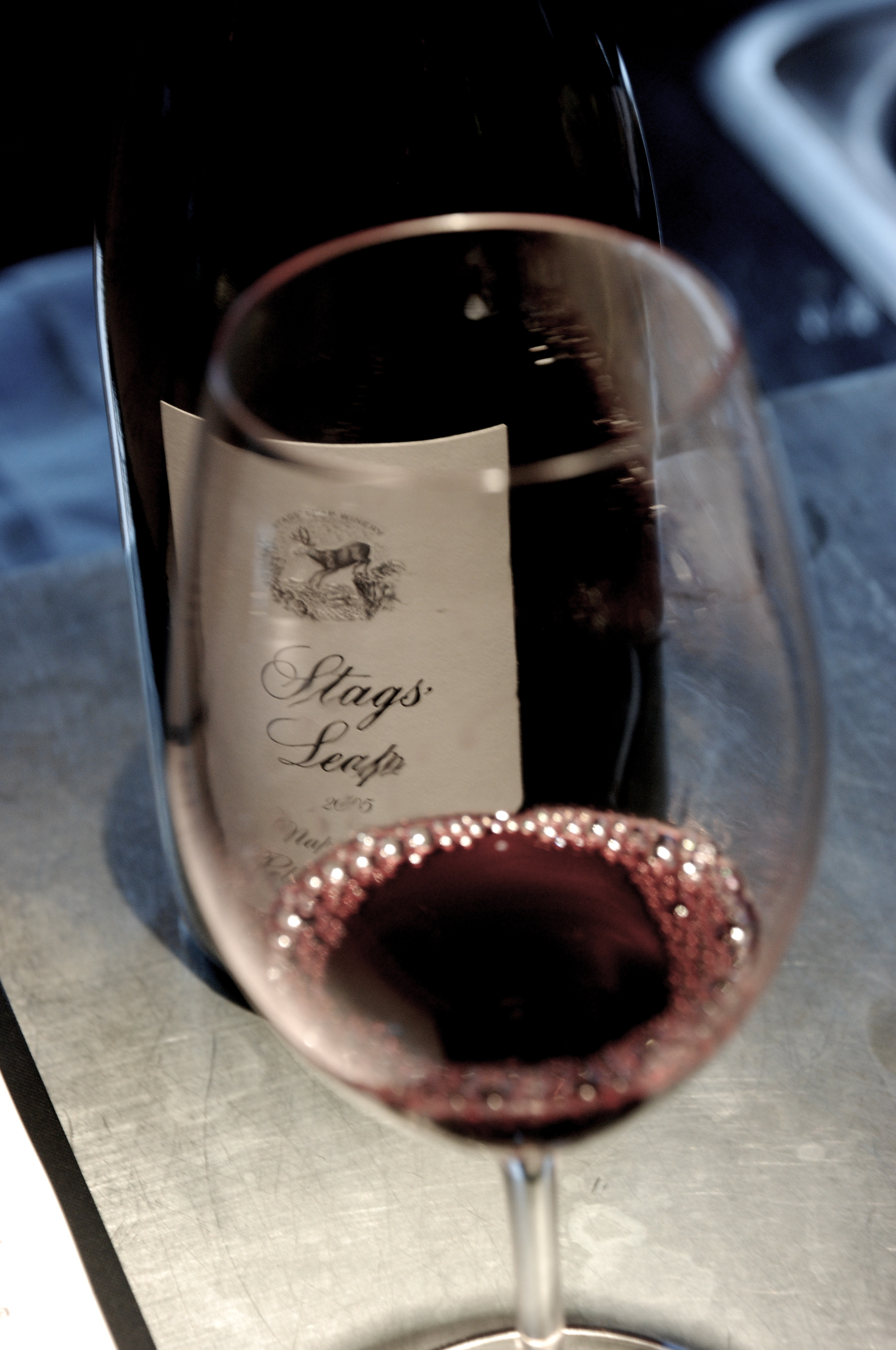 A glass of Stag's Leap Petite Sirah from Napa Valley